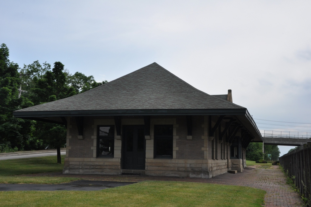 The Lake Shore and Michigan Southern Railway Station in Westfield, New York.